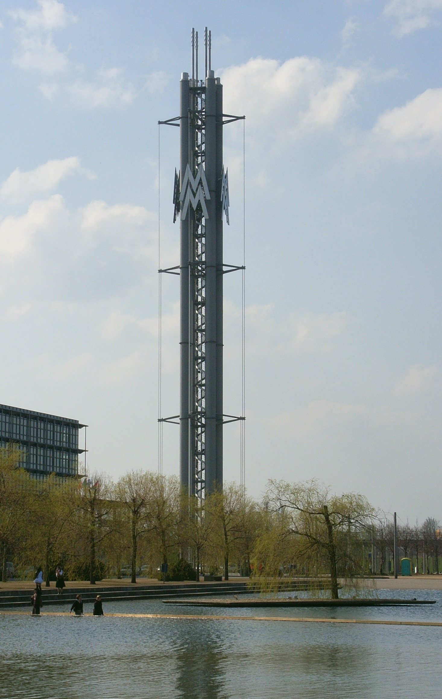 Tower of the Leipzig Trade Fair